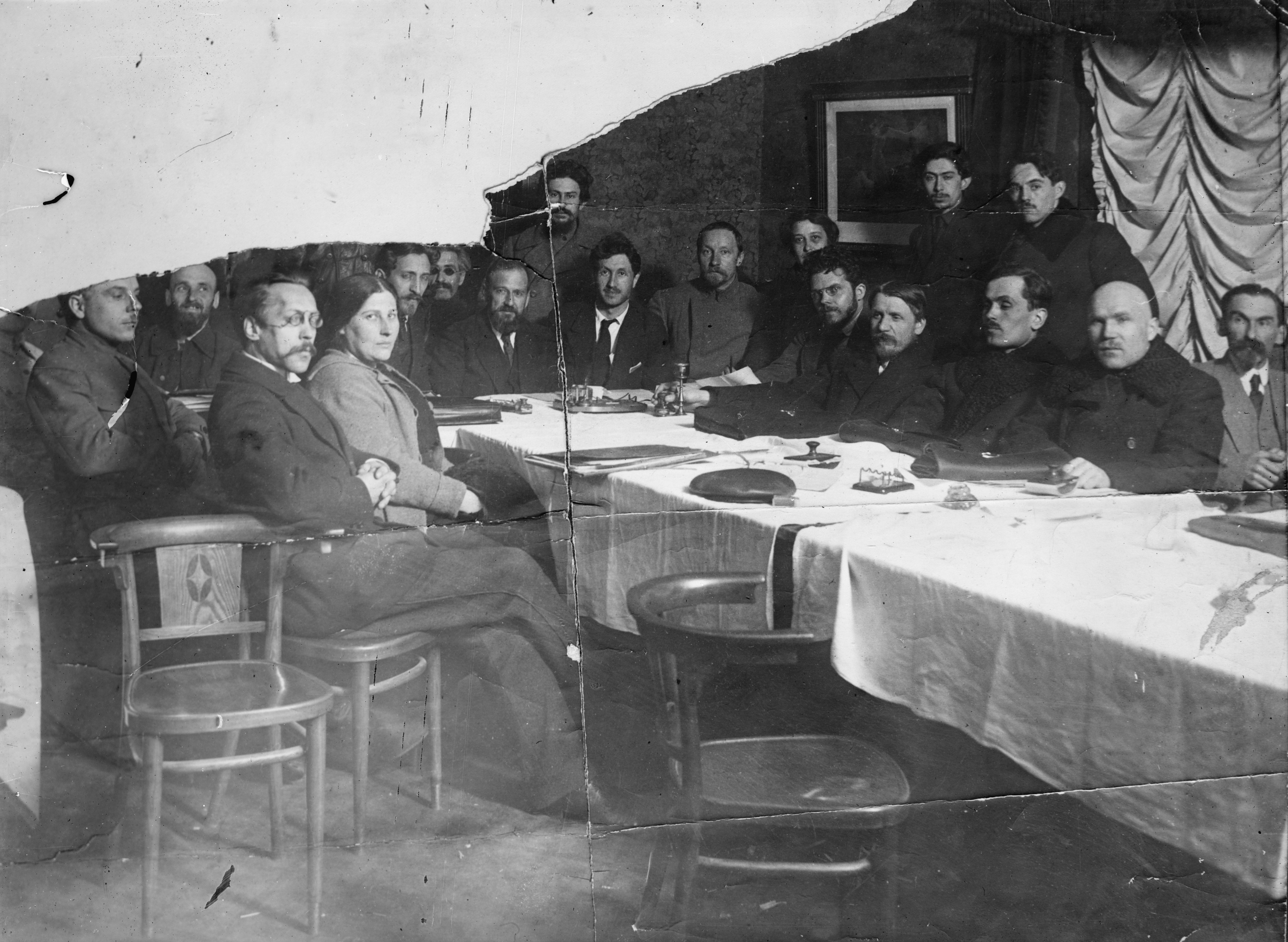 Bolshevik commissars in Kharkov some time in 1918 or 1919. Photo includes Serafima Hopner and Mykola Skrypnyk Title (from Library of Congress record): "Study these faces. It is the only known photograph of the Chief Commissaries of Kharkov, found in its half-destroyed condition, in Syenko's office after his flight. It will be evidence when some of these men are brought to trial. Study the faces. This is the type of man who has looted Russia, under the guise of a political liberation".